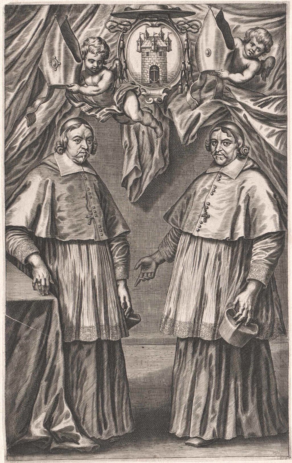 Brüder Adrian van Walenburch (1609–1669), links und Peter van Walenburch (1610-1675) rechts, Weihbischöfe von Köln und Mainz